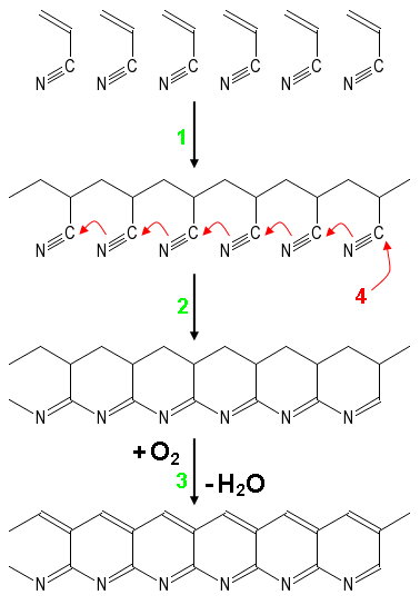 Polymerization of acrylonitrile and stabilization through partial oxidation Polymerization Cyclization Oxydative dehydrogenization (aromatization) Nucleophylic reagent